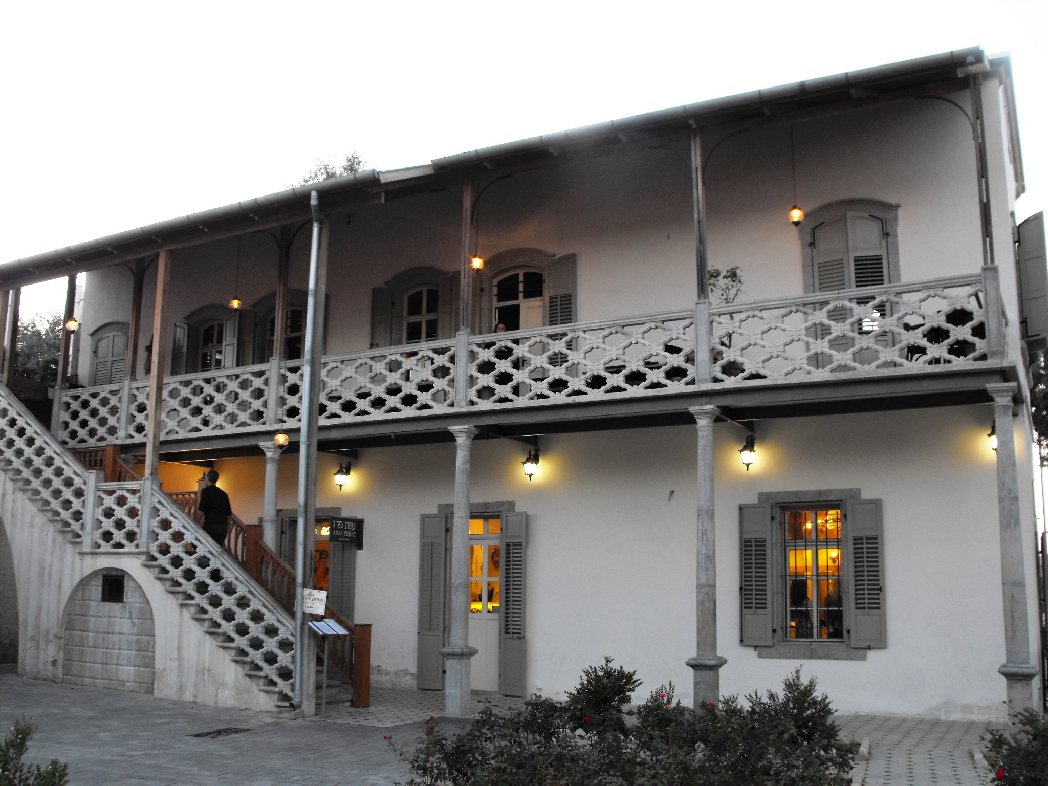 The old train staion in Tel-Aviv-Jaffa.